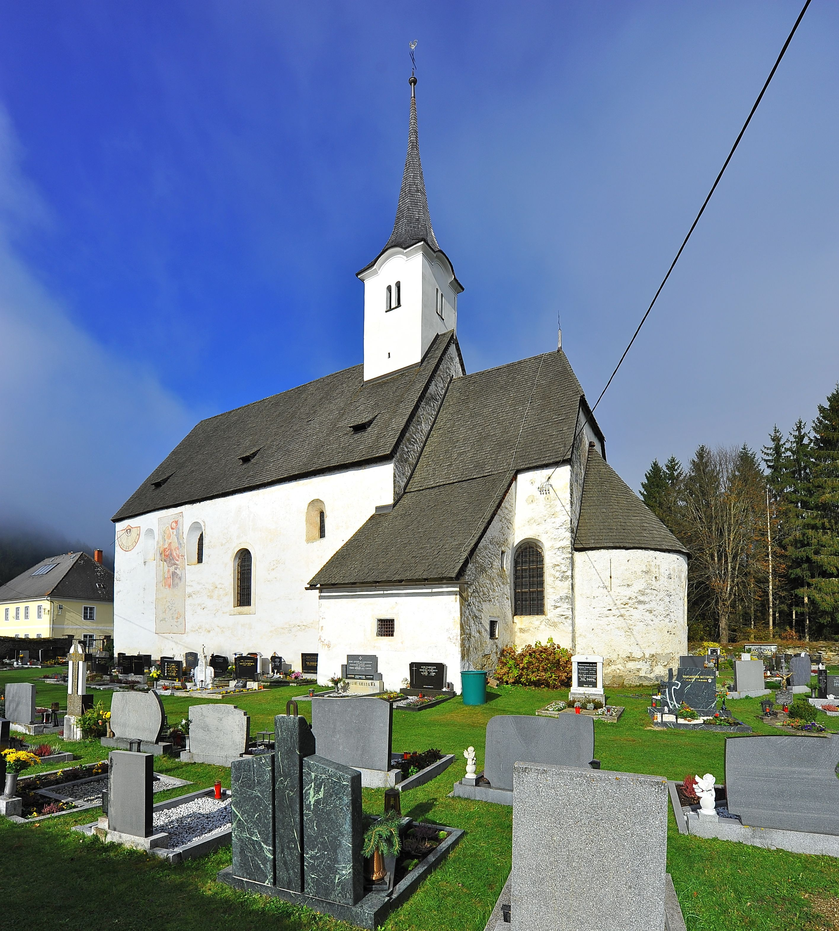 Parish church Saint Giles in Zweinitz, market town Weitensfeld, district Sankt Veit an der Glan, Carinthia, Austria, EU